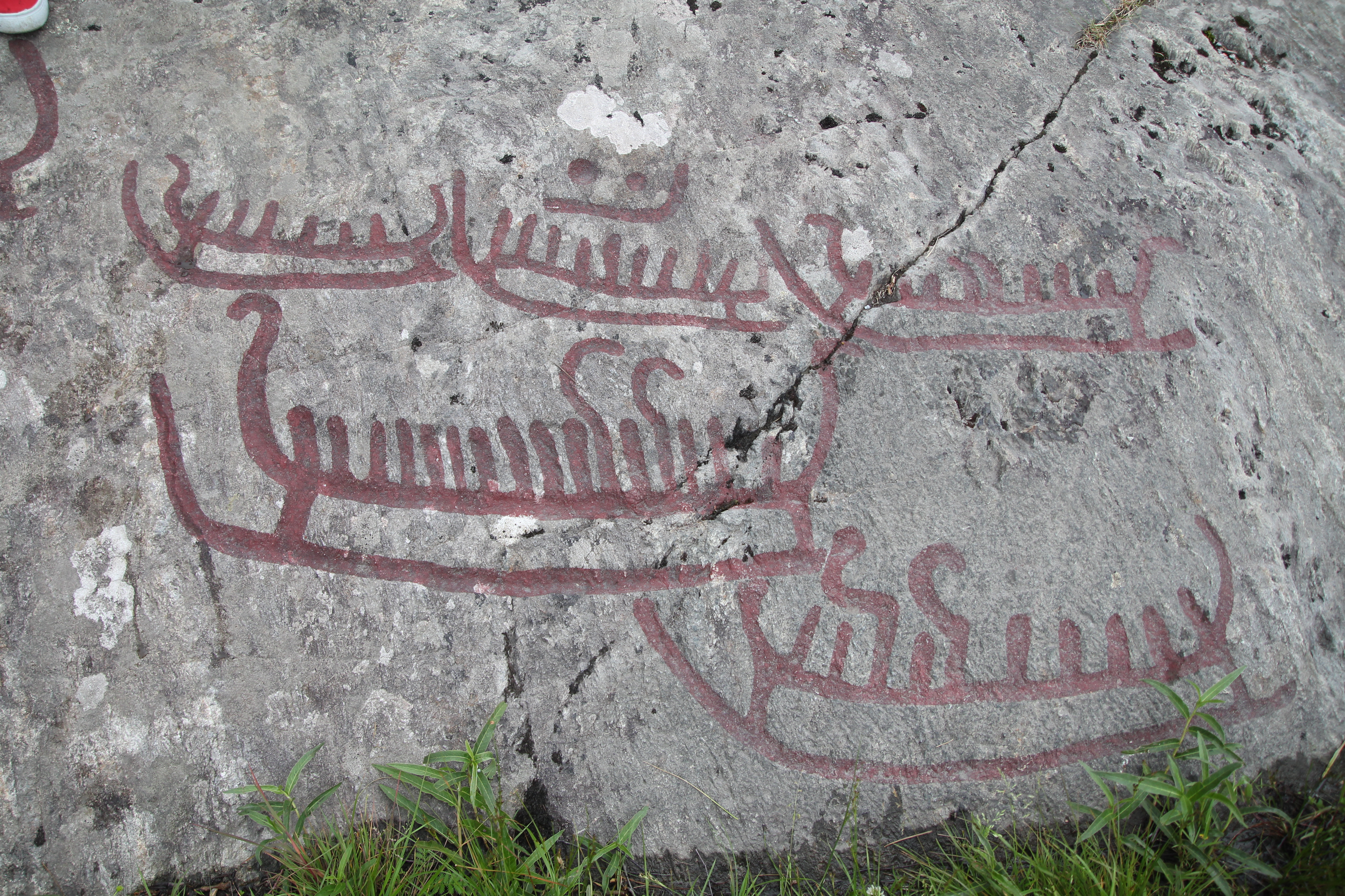 Petroglyph in Basteröd dated to 1800 - 500 B.C. showing a total of 15 ships sailing southeast. This detail shows horns identified as musical instruments. Petroglyph carved with unusually broad lines.